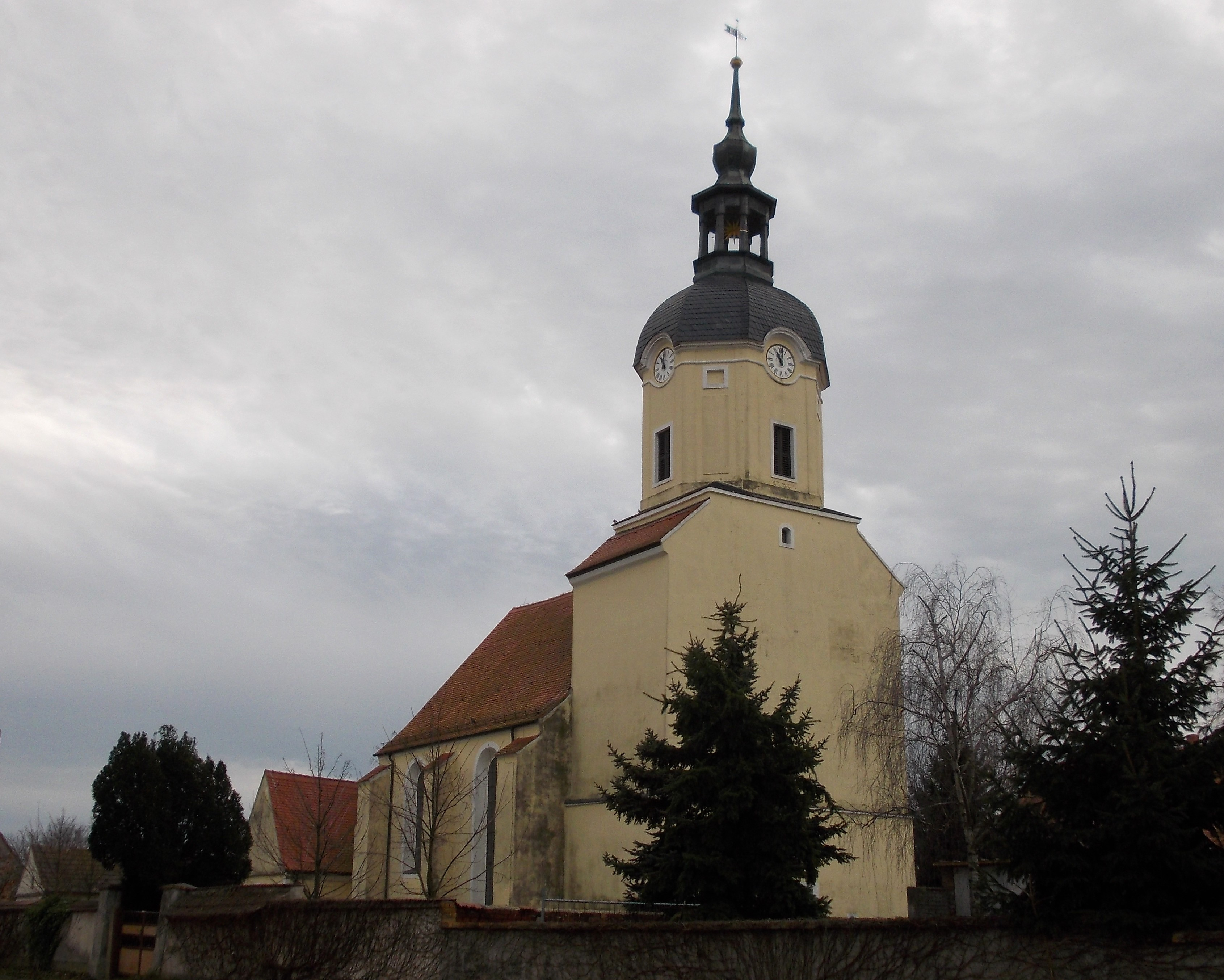 St. Luke's Church in Krippehna (Zschepplin, Nordsachsen district, Saxony)